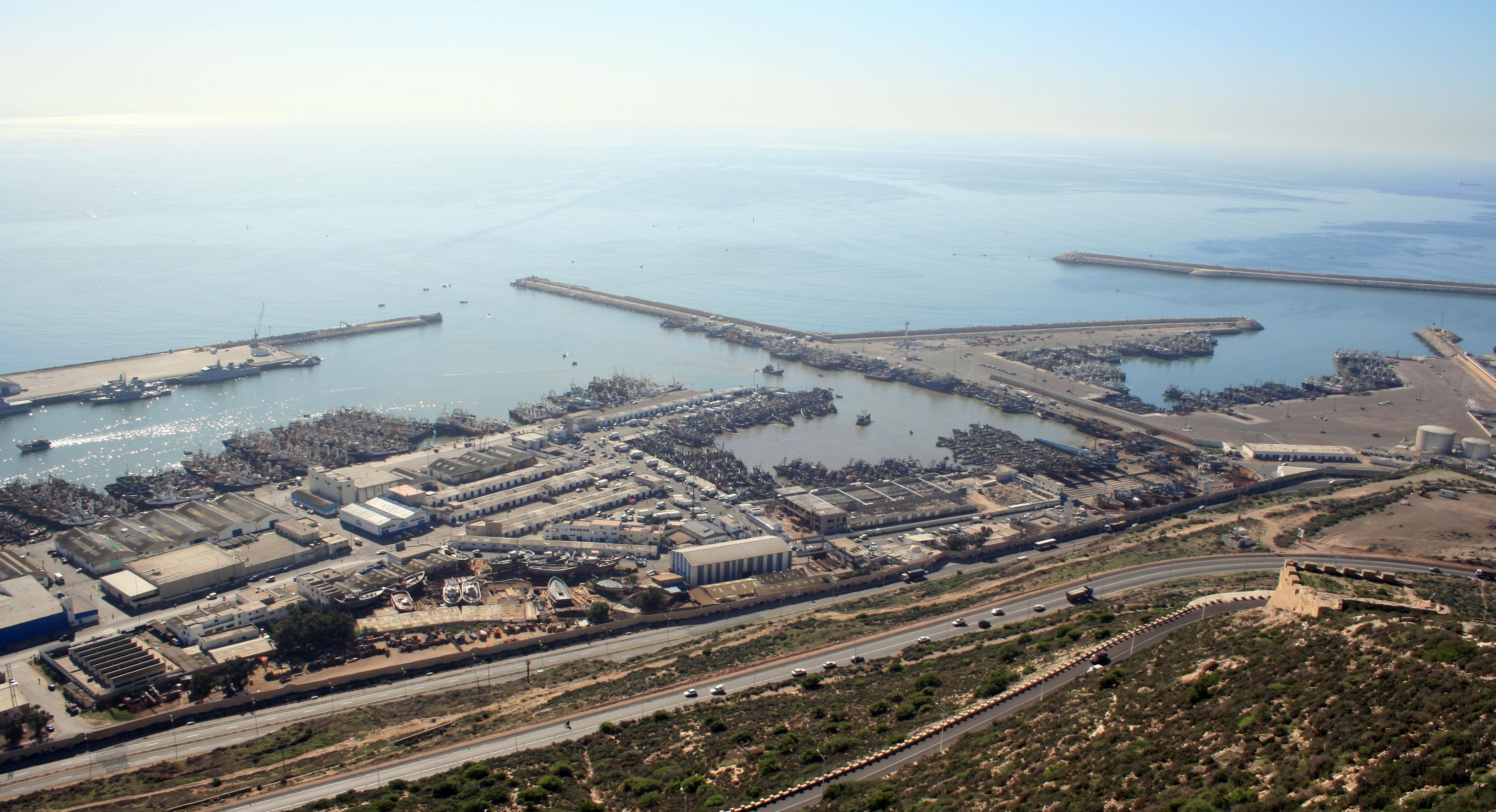 Morocco, Agadir: fishing port